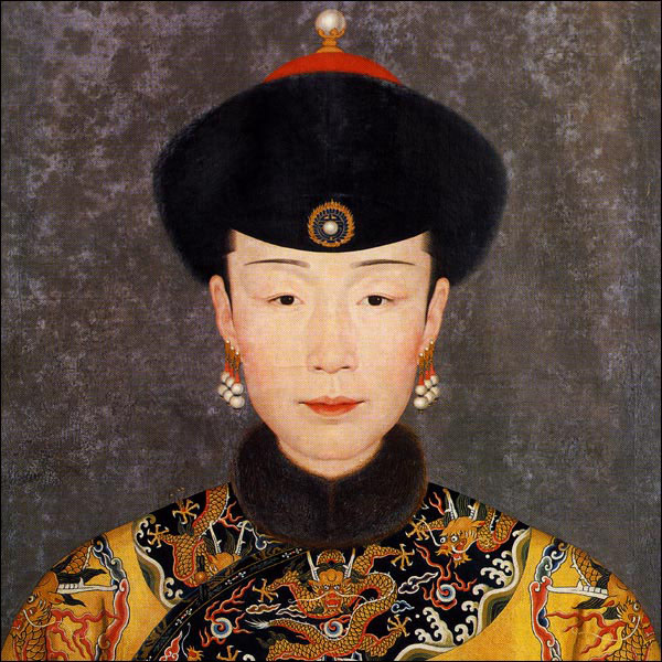 Imperial Noble Consort Hui Xian, she was a consort of the Emperor Qianlong of Qing dynasty 中文（中国大陆）: 慧贤皇贵妃朝服部分